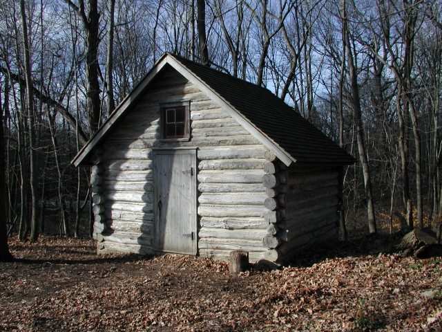 Bailly Storehouse or Fur Shop, Indiana Dunes National Lakeshore